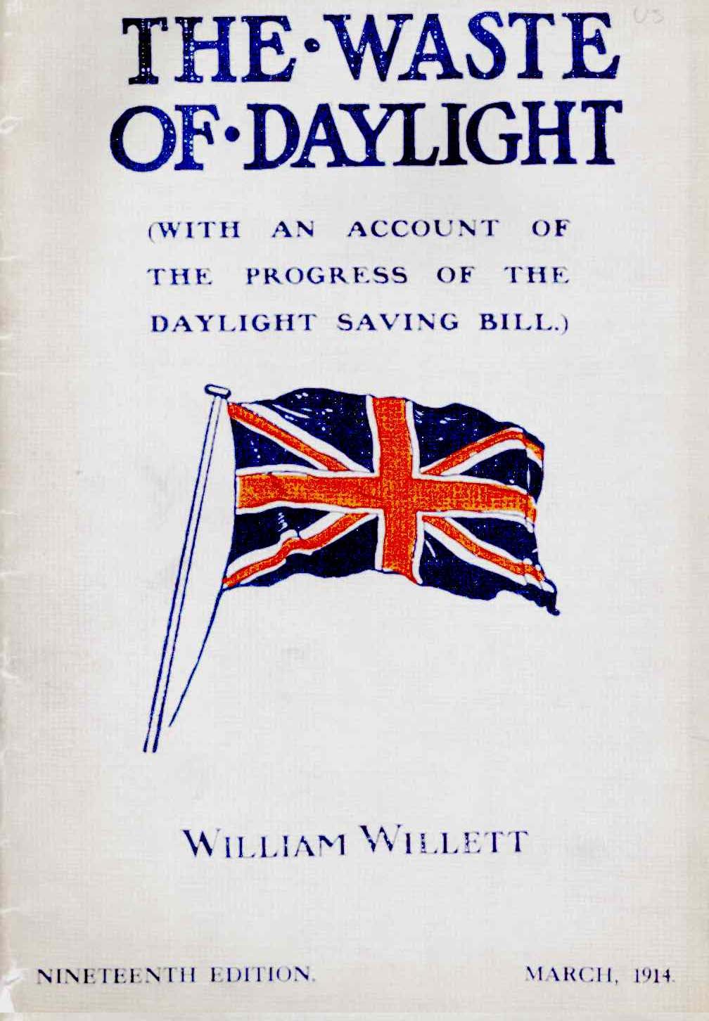 Cover of the 19th (and last) edition of the pamphlet "The Waste of Daylight", written by William Willett, who independently conceived DST in 1905. The pamphlet advocated DST for Britain and reported progress toward that goal.